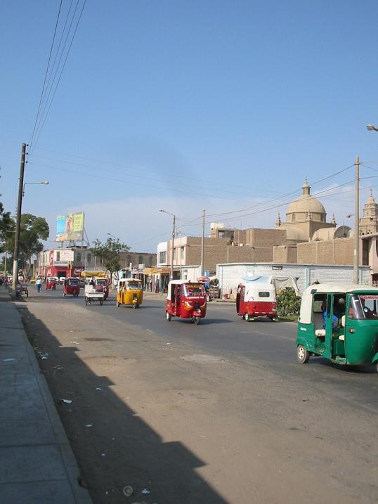 Downtown Ica, Peru